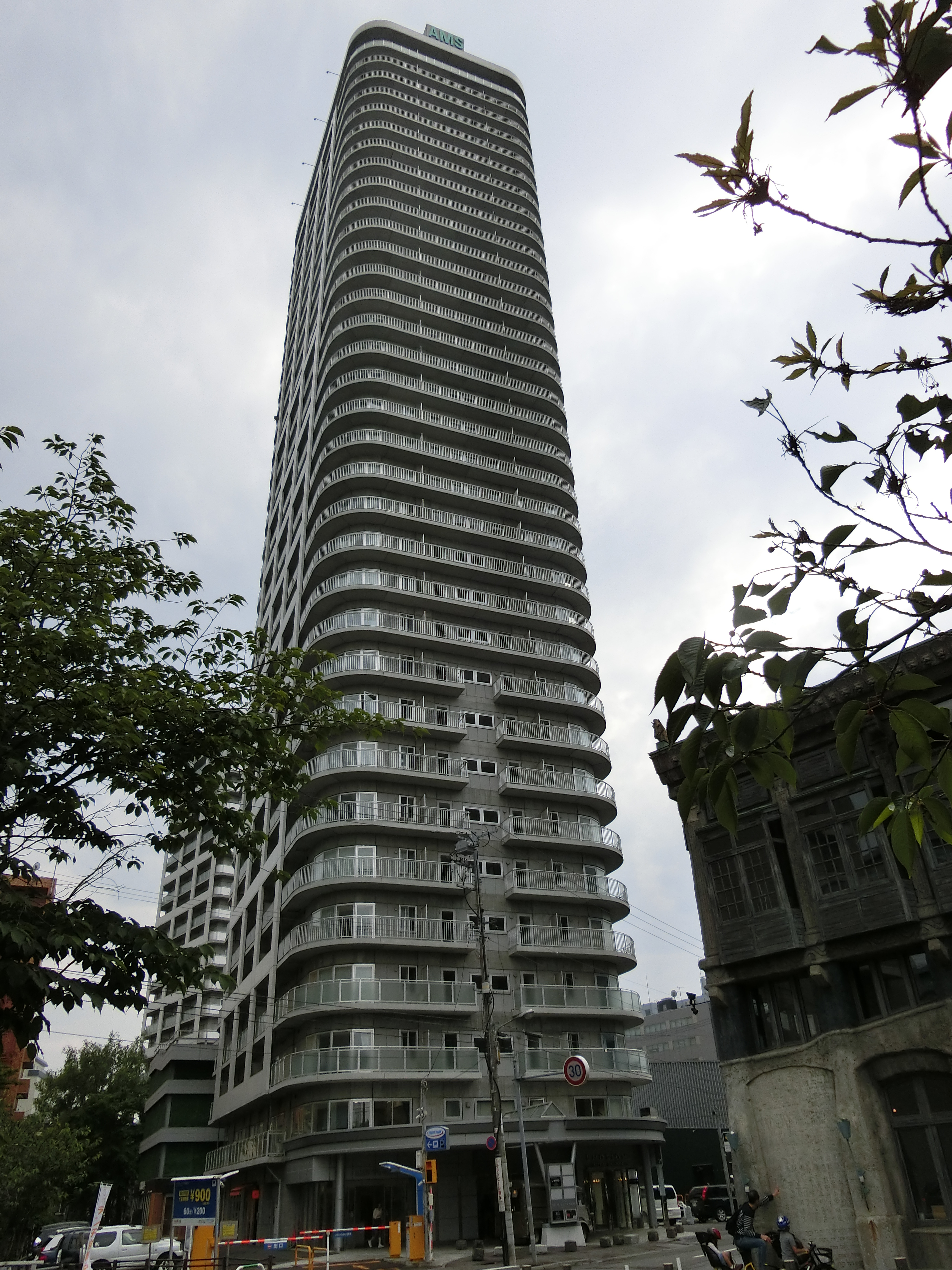 AMS NEW TOWER Nakajima located in South 9 West 4, South Ward, Sapporo, Hokkaido